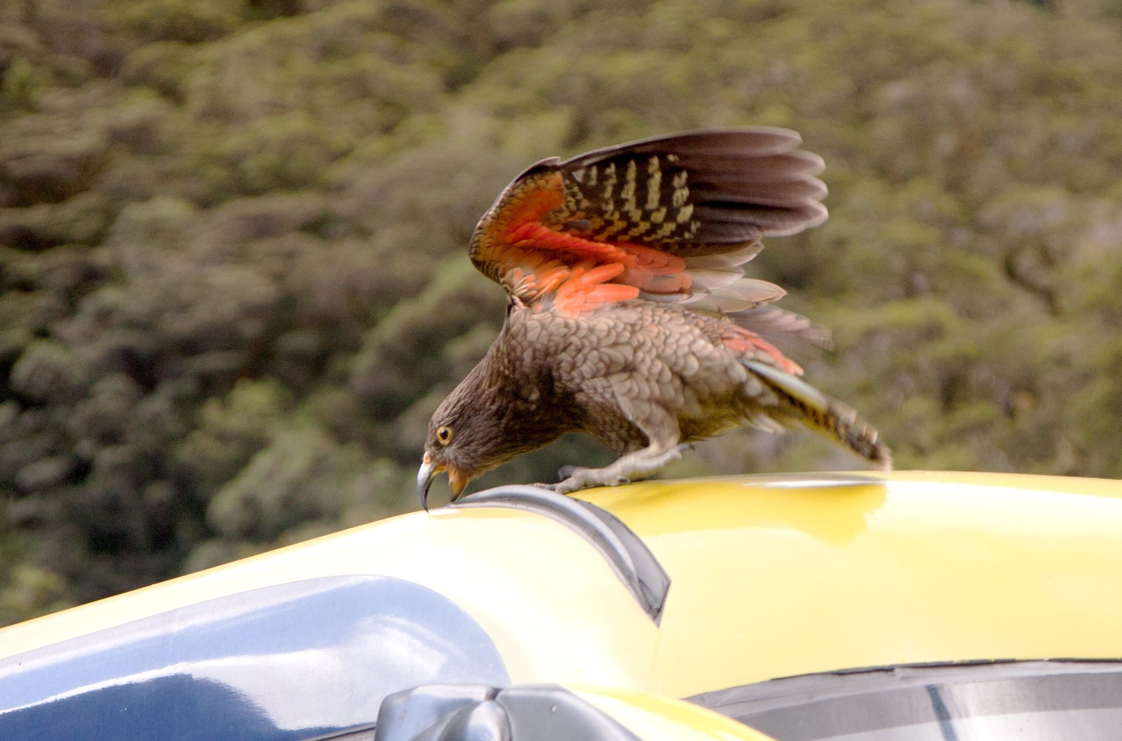 Kea Nestor notabilis damaging a car. Canterbury, New Zealand.